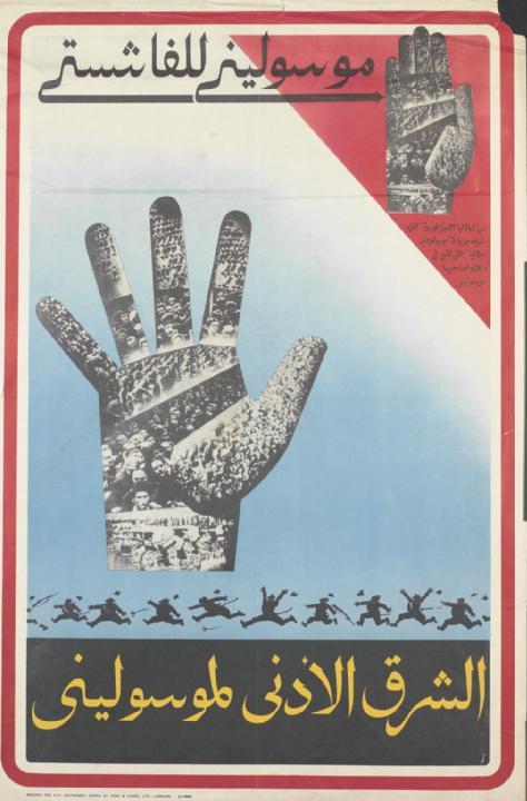 [arabic Text] [mussolini to the Fascist] whole: the three images are positioned in the upper four-fifths. The title and text are integrated and located in the upper third, in black. Further text is separate and positioned in the lower fifth, in yellow, held within a black inset. The upper four- fifths is partially set against a red and blue area. All set against a white background and held within a red border. image: the upper image is a depiction of a hand, with the fingers closed. The central image is a depiction of a hand, with the fingers spread. Both hands contain photographs of crowds of civilian or military personnel. The lower image is a depiction of a line of silhouetted military personnel, running from right to left. text: [Arabic text] PRINTED FOR H.M. STATIONERY OFFICE BY FOSH and CROSS, LTD., LONDON (51-9899) [Mussolini to the fascist. From 'Italy, the Empire' which was published by 'Il Popolo di Italia' newspaper which is printed in Milan, and its proprietor is Mussolini. The Near East is for Mussolini.]